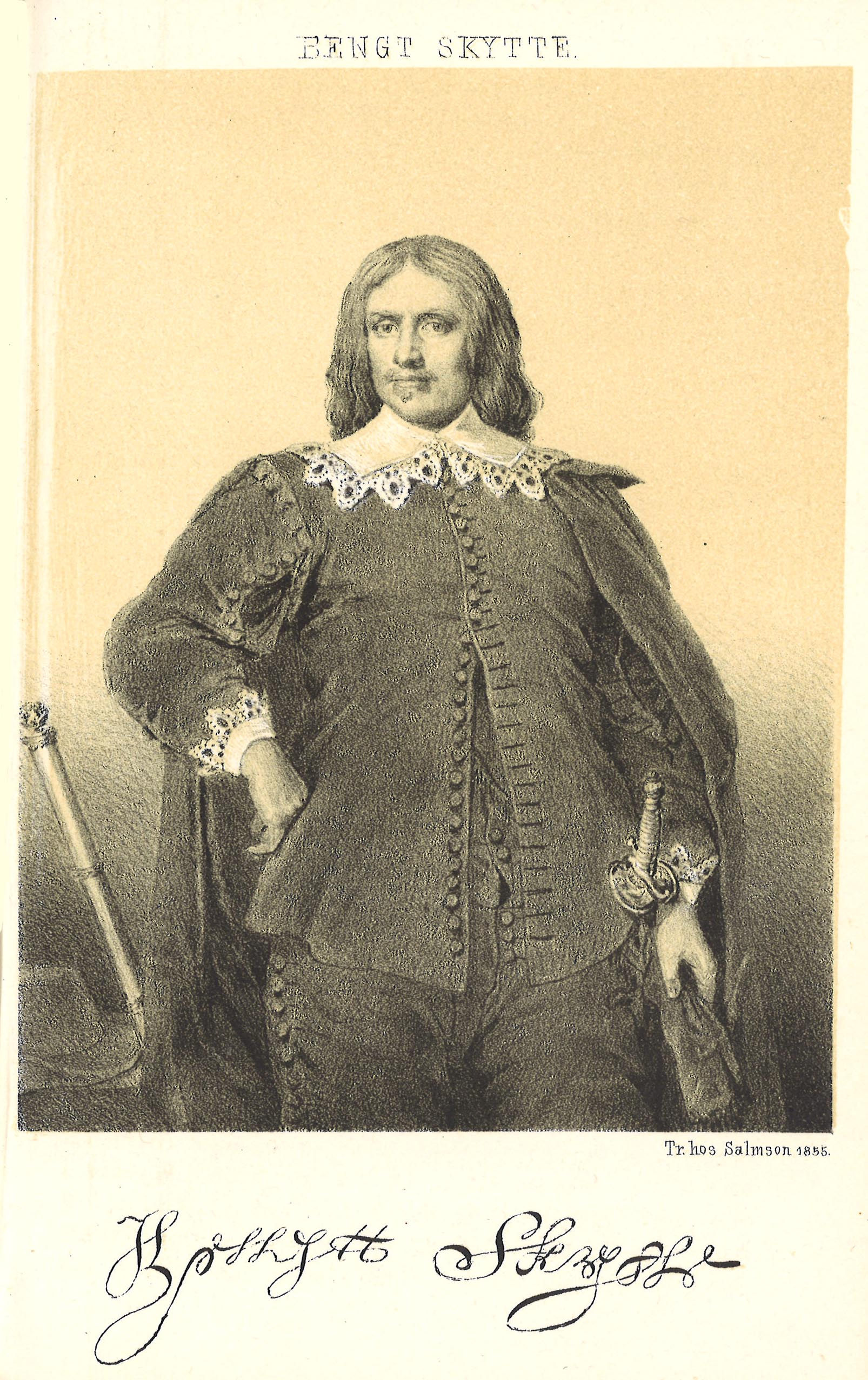 Bengt Skytte (1614-1683), Swedish baron, senator, county governor and "lantmarskalk" (chairman of the estate of nobility).